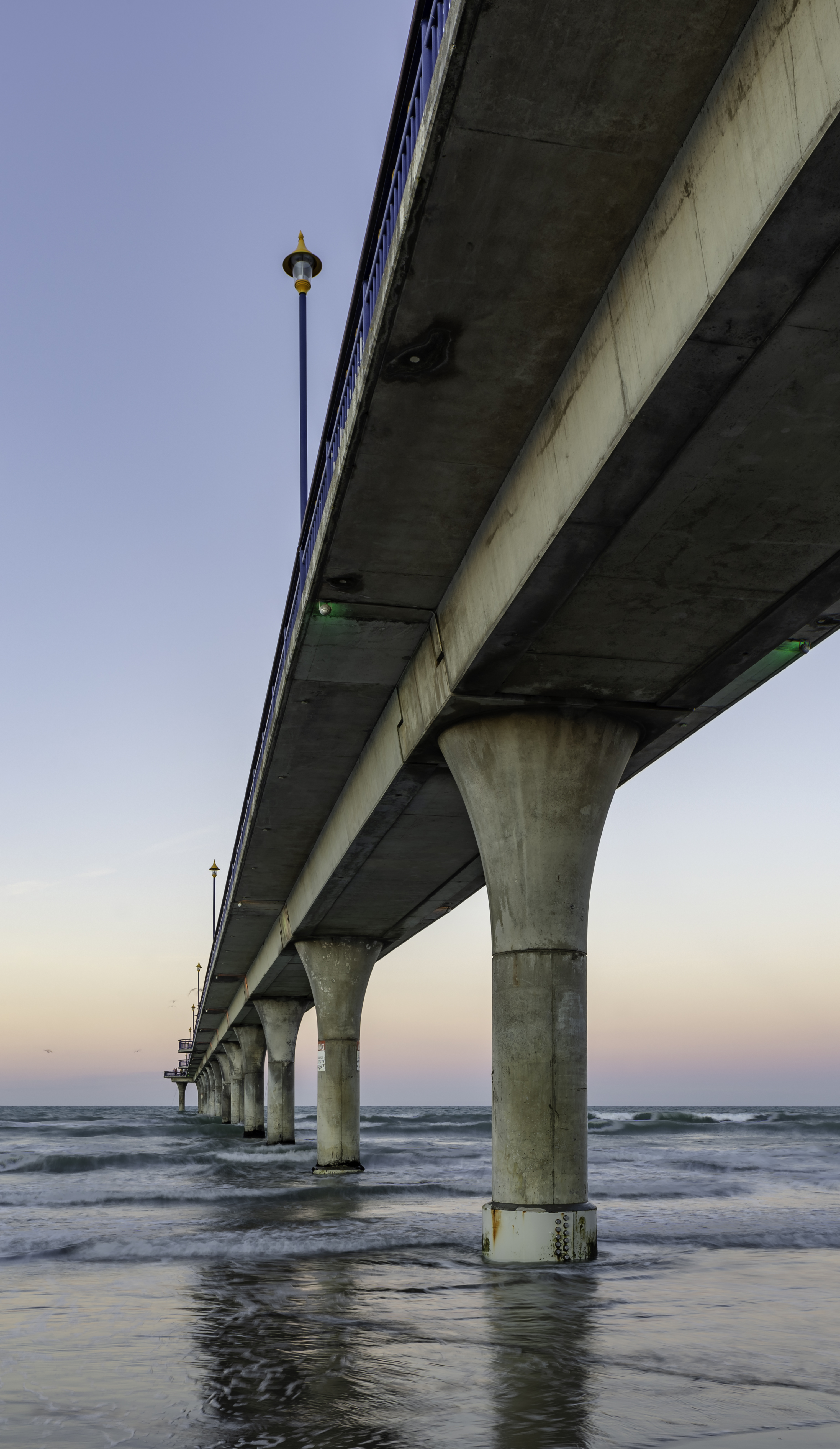 New Brighton Pier during the sunset. New Brighton, Christchurch, New Zealand